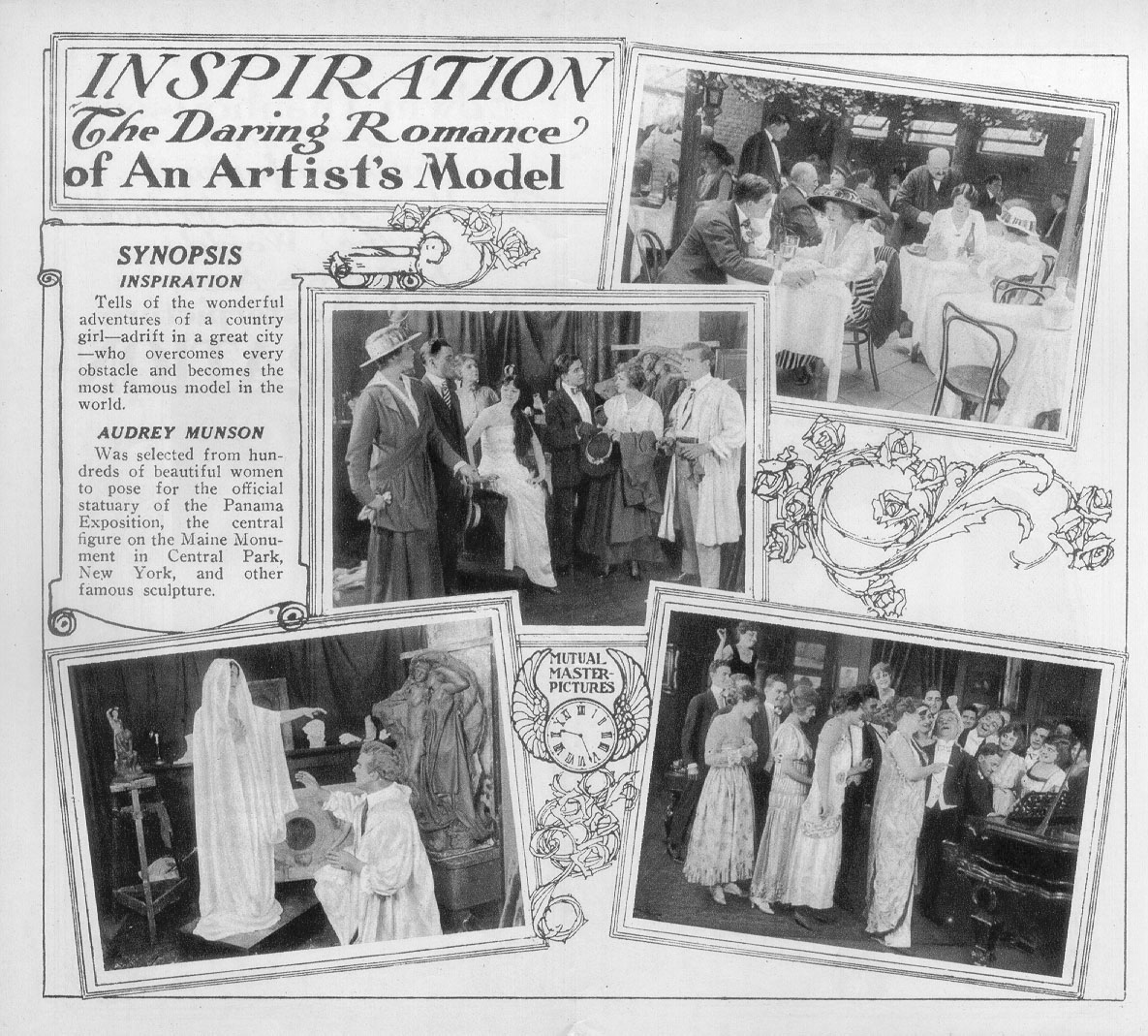 Advertisement for the film Inspiration Tells of the wonderful adventures of a country girl -- adrift in a great city -- who overcomes every obstacle and becomes the most famous model in the world. AUDREY MUNSON Was selected from hundreds of beautiful women to post for the official statuary of the Panama Exposition, the central figure on the Maine Monument in Central Park, New Yor, and other famous sculpture.